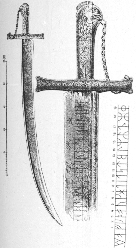 drawing of a scythe sword with runic calendar, owned by Thomas Müntzer(1489-1525).